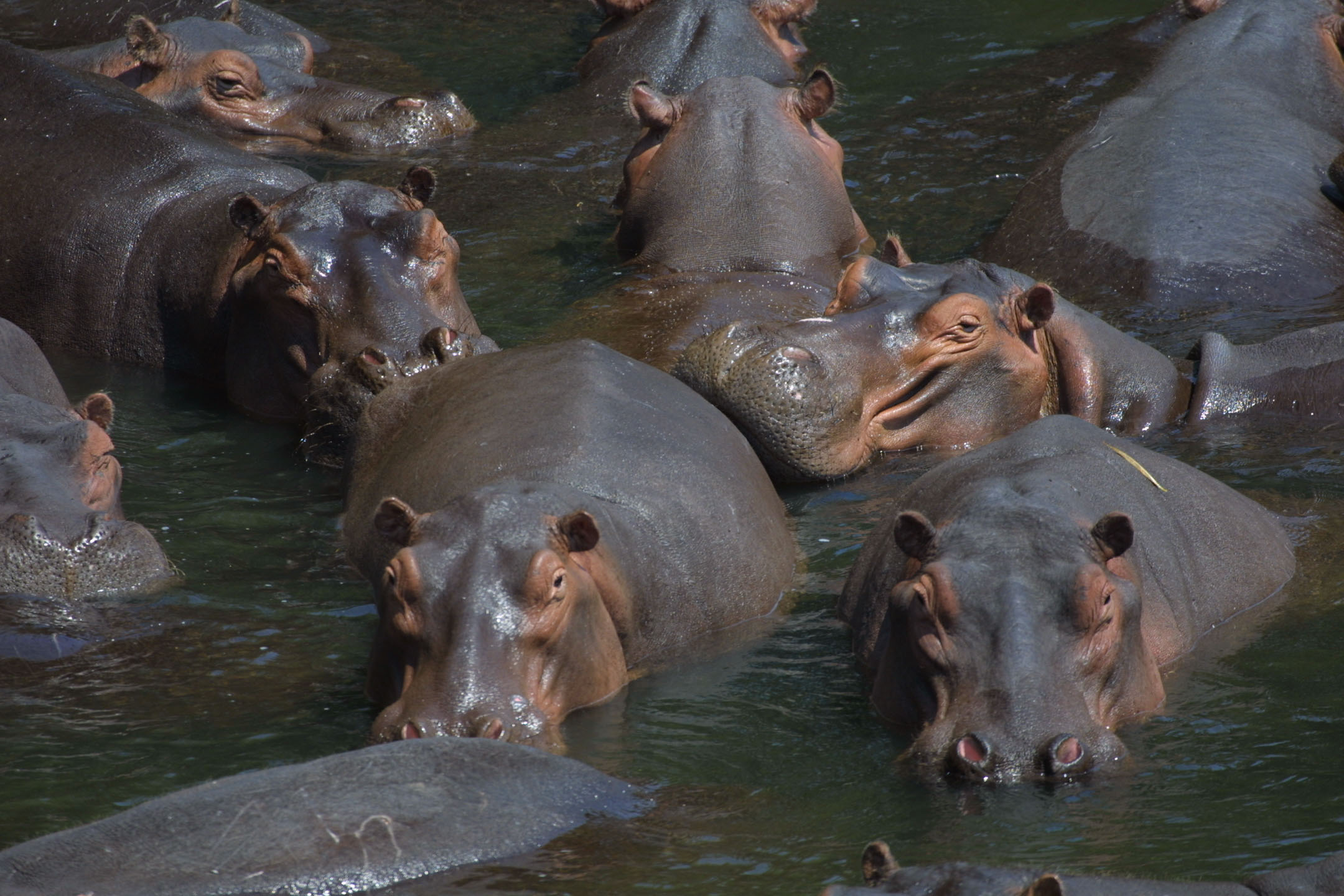 Pod of Hippo's in Luangwa Valley, Zambia, 2002. Taken and submitted by Paul Maritz (User:paulmaz)